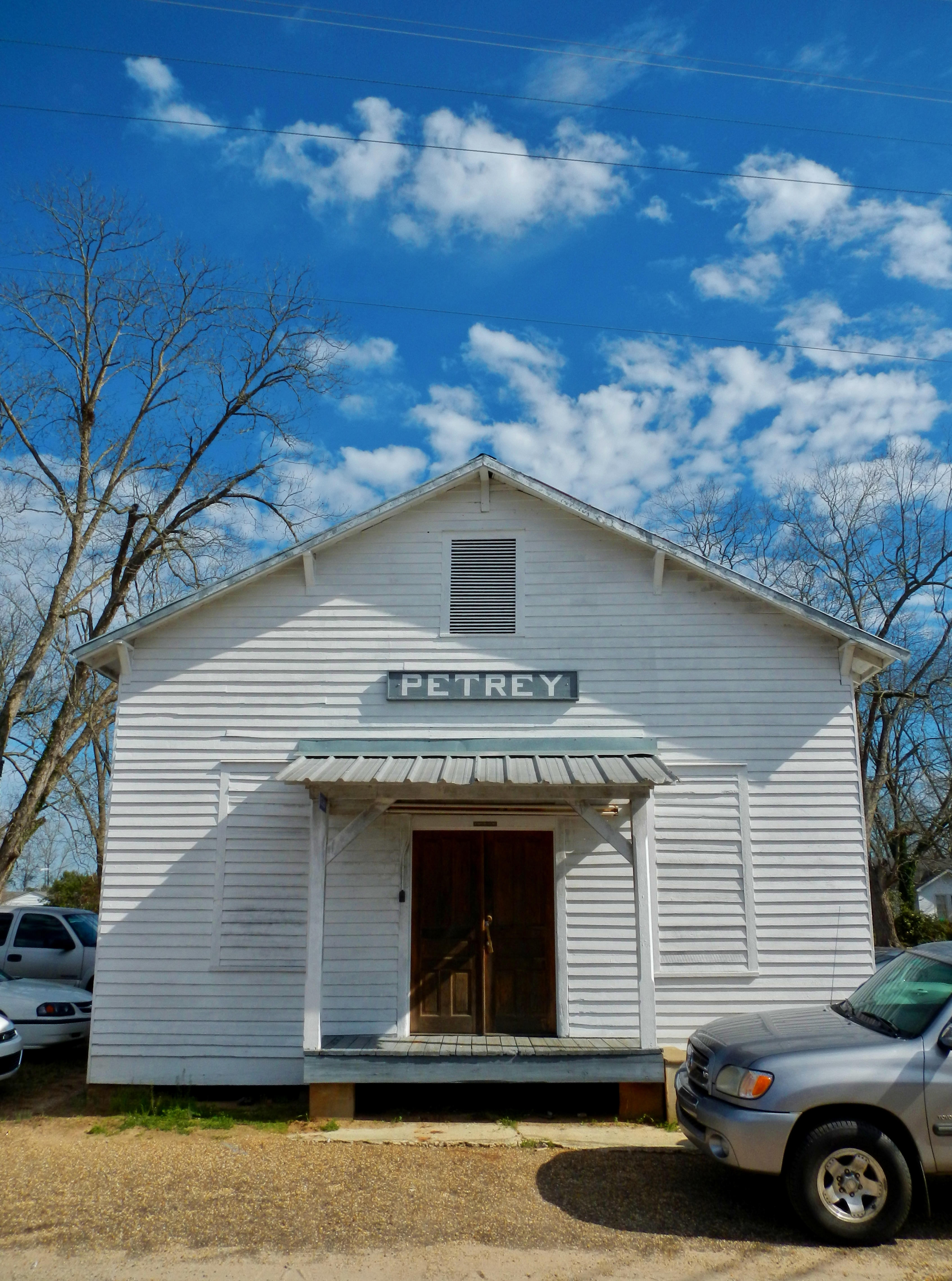 This is a photograph of Petrey, Alabama in Crenshaw County.